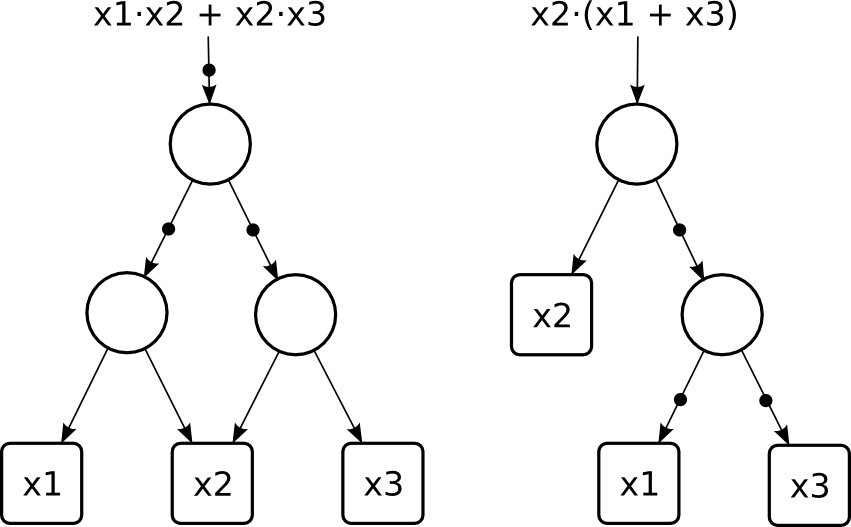 two AIGs for the function x2*(x1+x3)